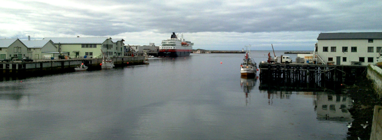 Port of Vardø, Finnmark, Northern Norway